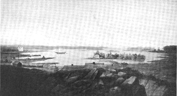 Illustration of Fort Drummond (Fort Collier) on Drummond Island, MI, c. 1820